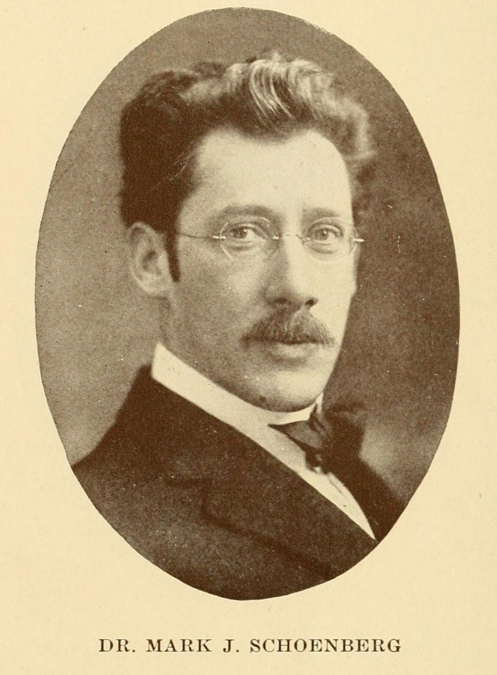 Mark Joseph Schoenberg